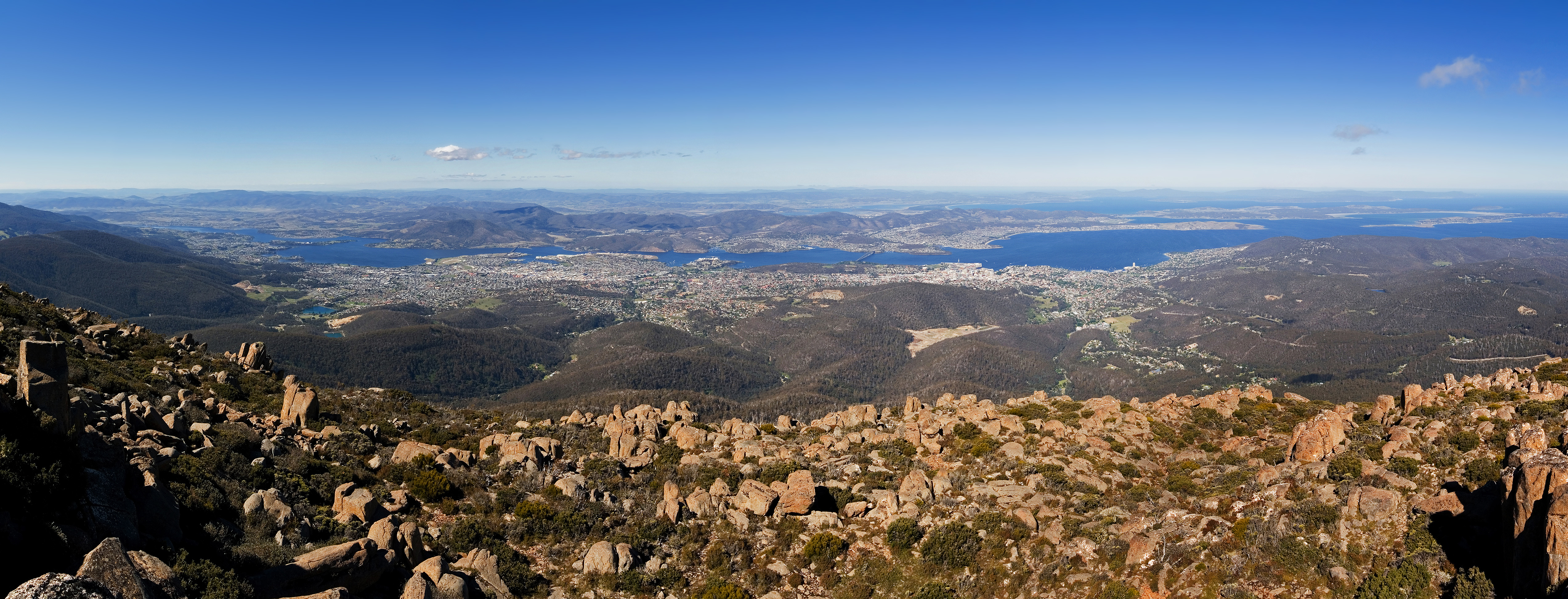 Greater Hobart area from Mt. Wellington Camera data Camera Canon EOS 400D Lens Sigma 10-20mm F4-5.6 EX DC HSM Focal length 20 mm Aperture f/11 Exposure time 1/160 s Sensivity ISO 100